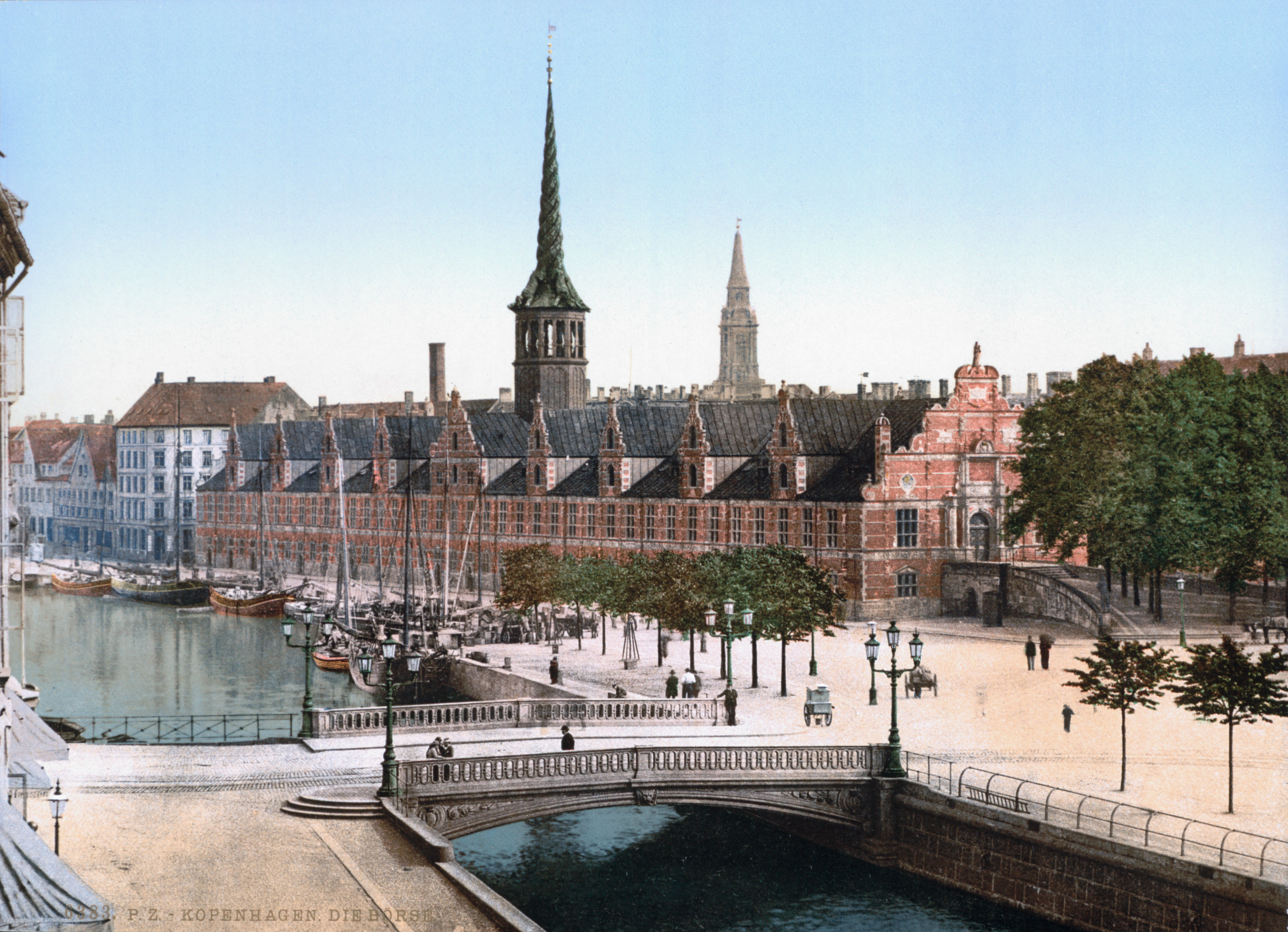 [Exchange hall, Copenhagen, Denmark] [between ca. 1890 and ca. 1900]. 1 photomechanical print : photochrom, color. Notes: Title from the Detroit Publishing Co., catalogue J, foreign section. Detroit, Mich. : Detroit Publishing Company, c1905. Print no. 6383. Forms part of: Views of architecture and other sites in Copenhagen, Denmark in the Photochrom print collection. Subjects: Denmark--Copenhagen. Format: Photochrom prints--Color--1890-1900. Repository: Library of Congress, Prints and Photographs Division, Washington, D.C. 20540 USA, Part Of: Views of architecture and other sites in Copenhagen, Denmark (DLC) 2001697980 More information about the Photochrom Print Collection is available at Persistent URL: Call Number: LOT 13421, no. 004 [item]